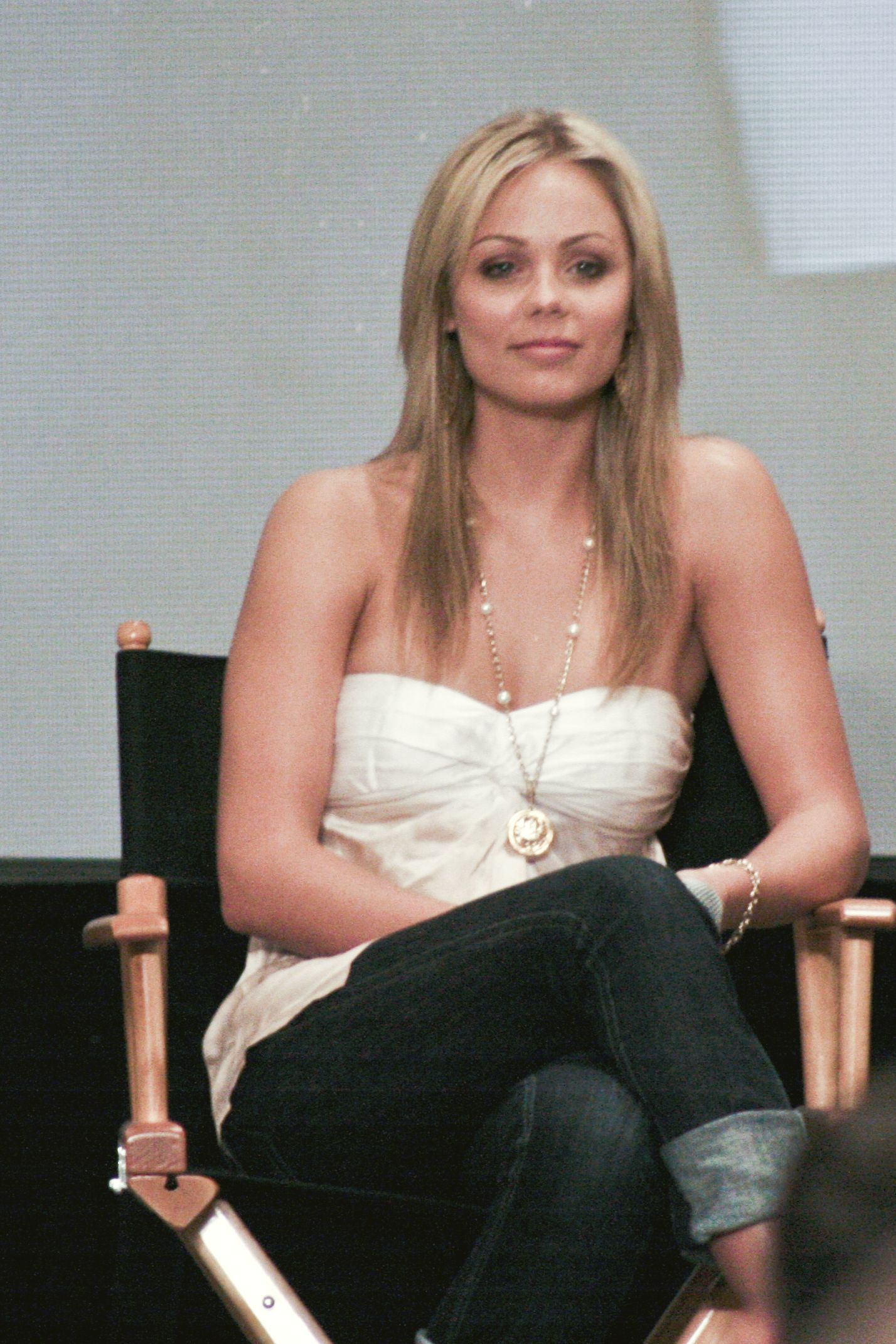 A picture of Laura Vandervoort